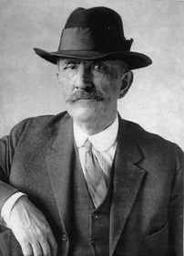 Fremont Older (30 August 1856 - 3 March 1935), American newspaperman and editor. Photograph circa 1919.